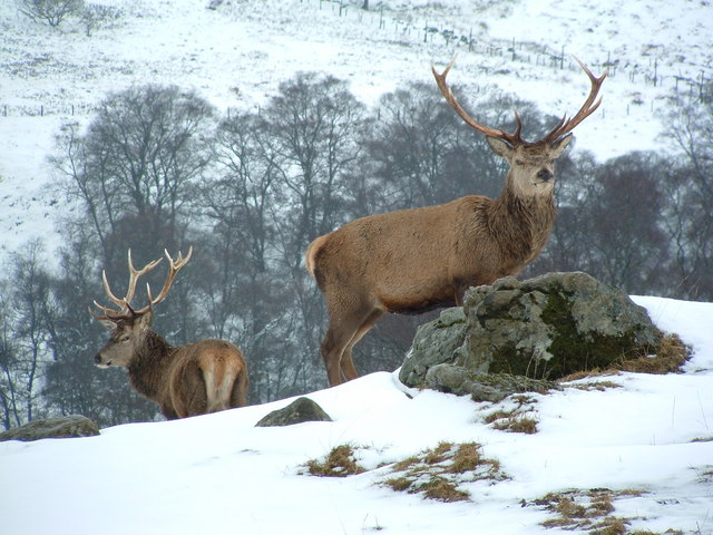 The Deer Park, Glengoulandie.